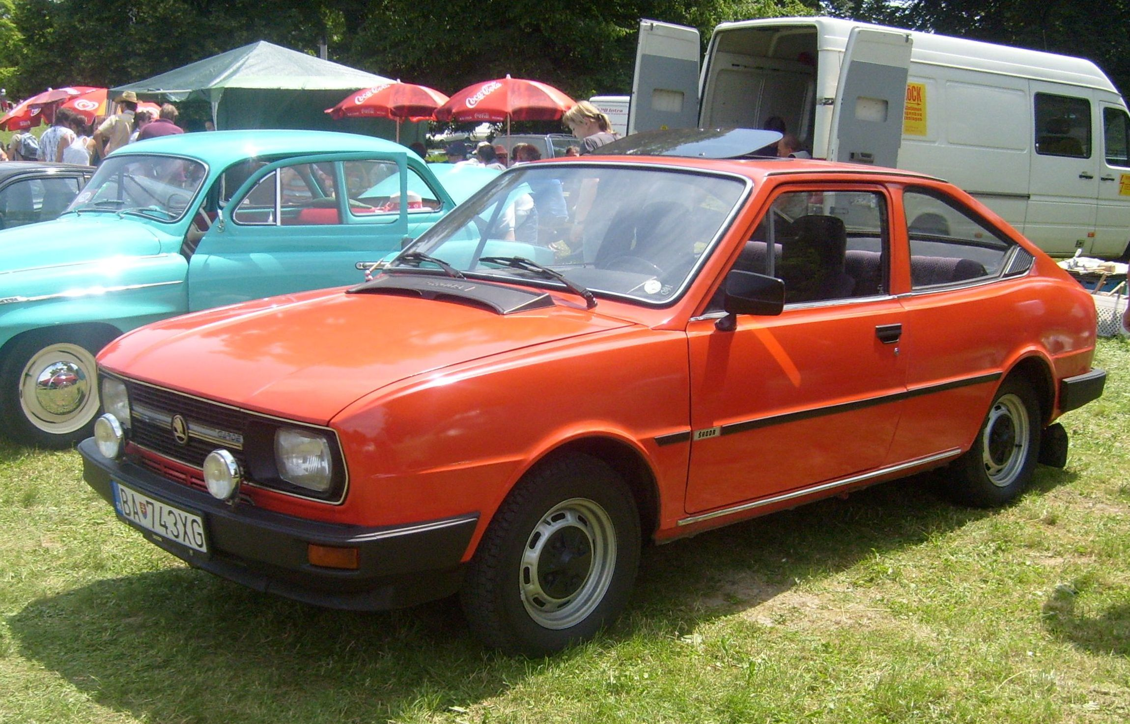 2+2 Coupé Skoda Garde (1982), 1174ccm, 42kW by 5200rpm, top speed 153 km/h